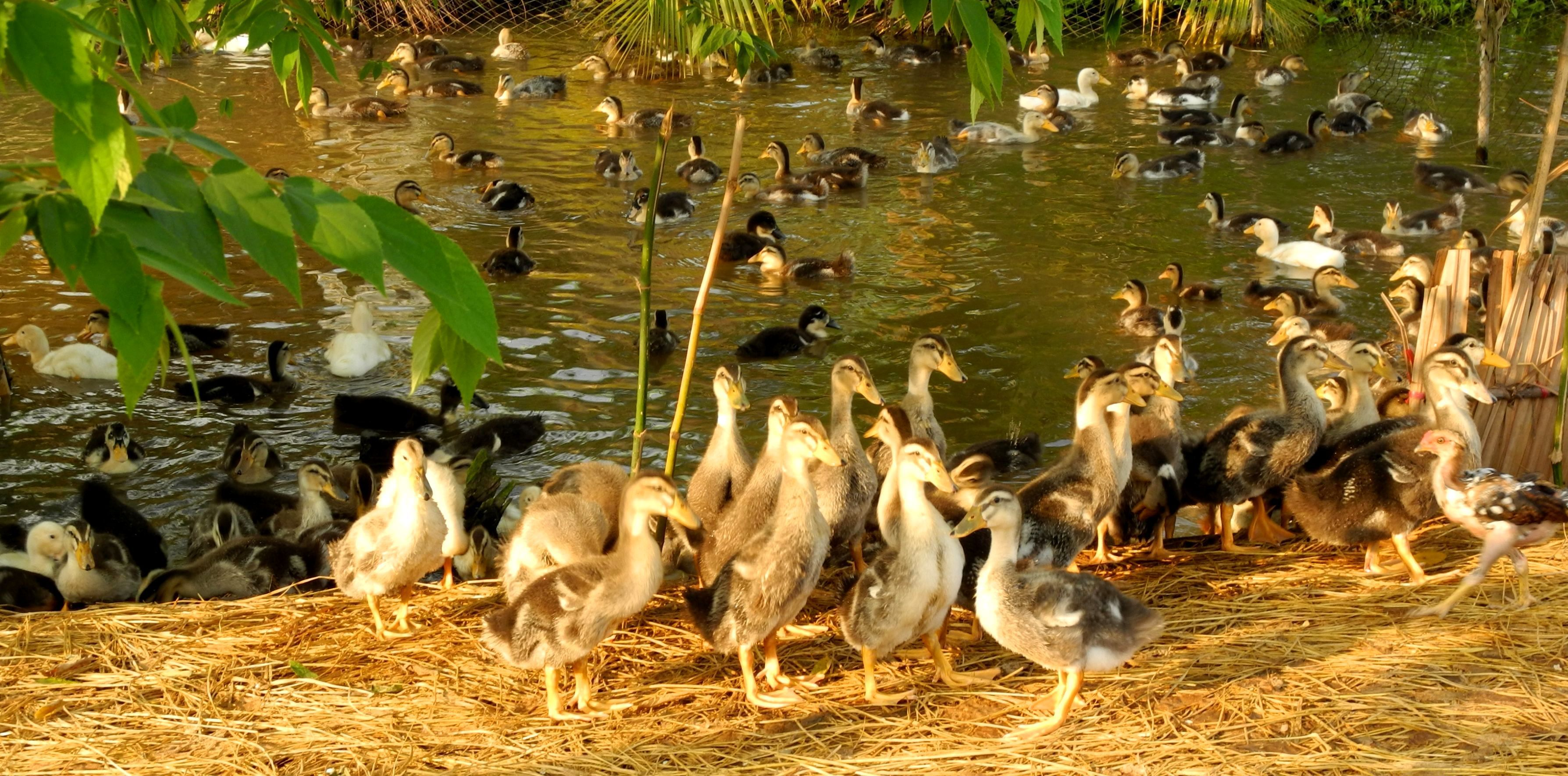 Duck farming in Ben Tre province